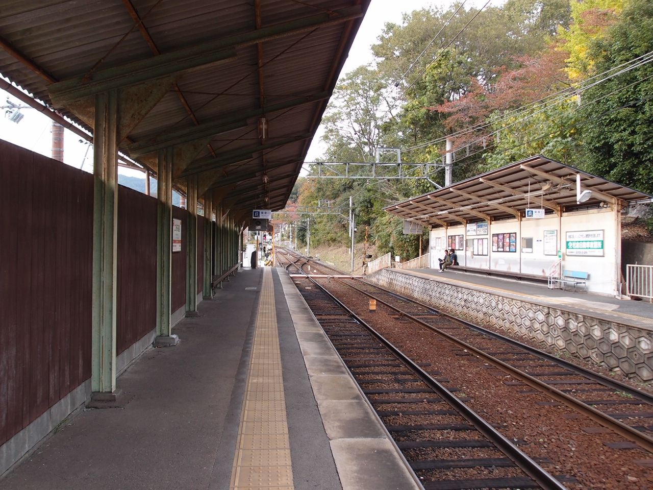 Eizan Electric Railway.